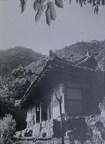 청련암 전경 Cheongryeonam in Buan County is a hermitage of Naesosa from a photo taken 1907.